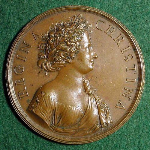 Christina, Queen of Sweden (1626-1689)